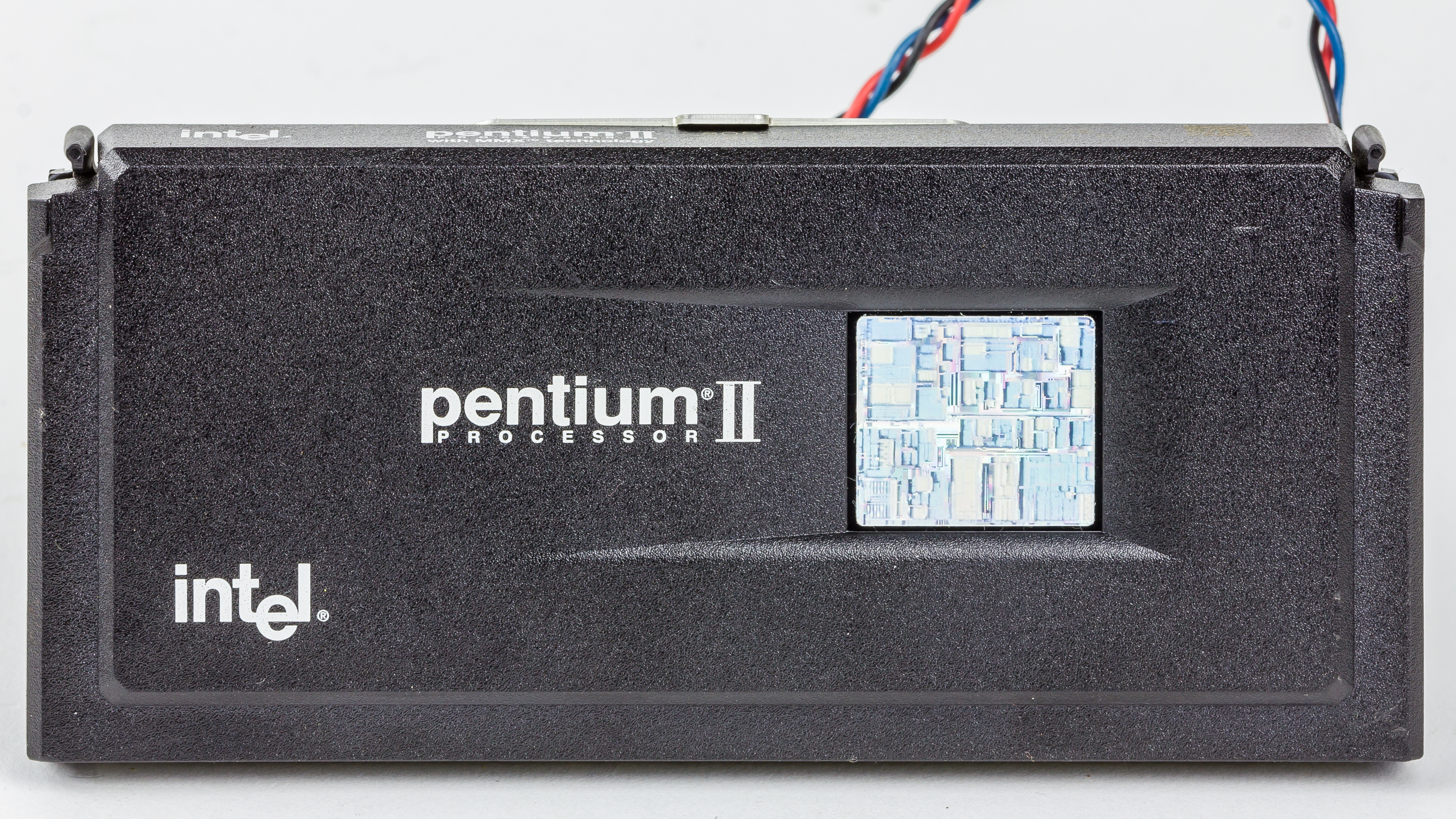 Pentium II 300 Deschutes - SL2W8. With heat sink and cooler fan